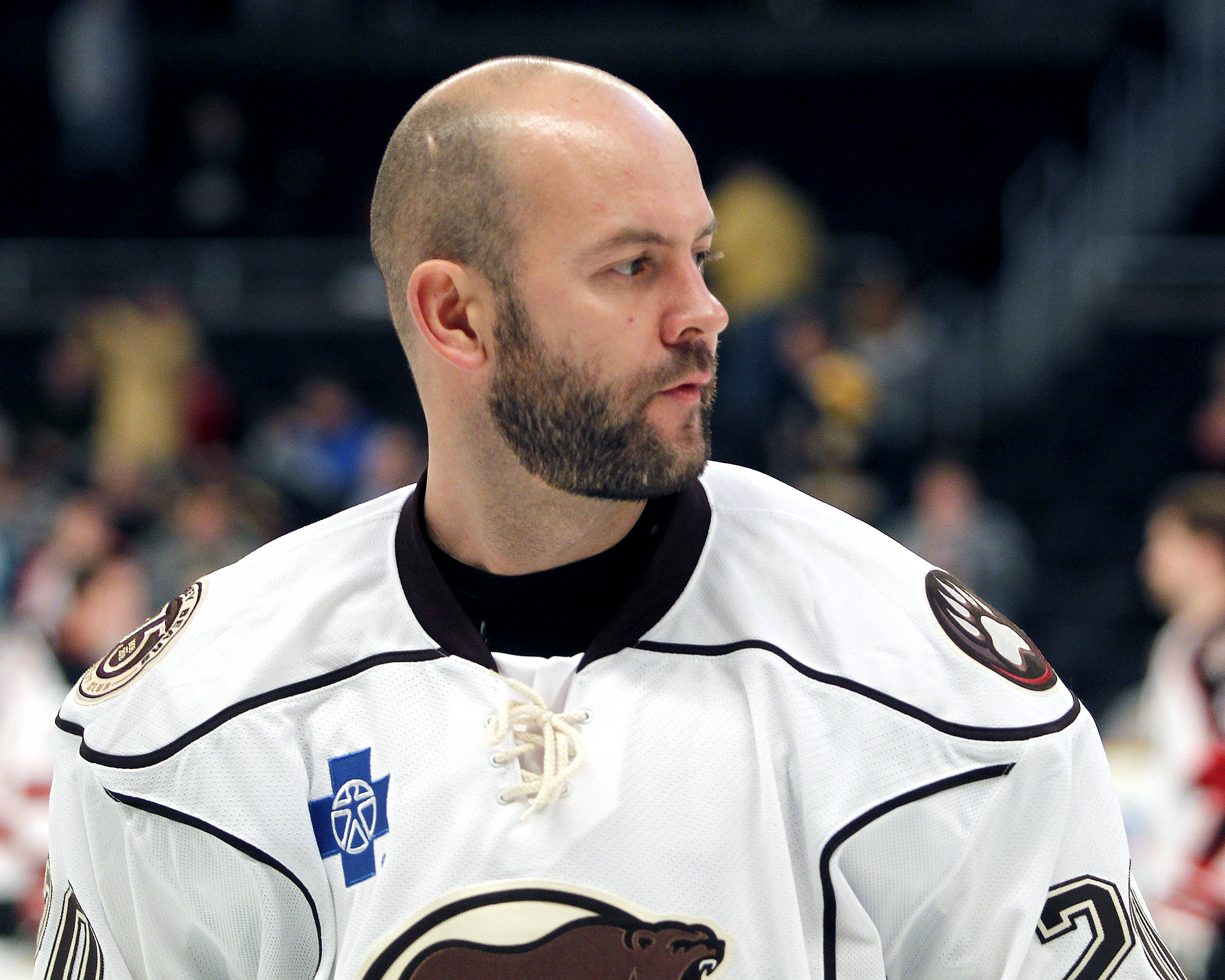 Taffe4 American Hockey League (AHL). 2013 All-Star Skills Competition. Taken on January 27, 2013.